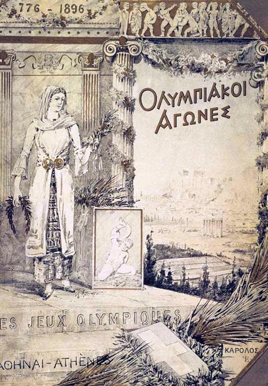 Poster for the 1896 Summer Olympics